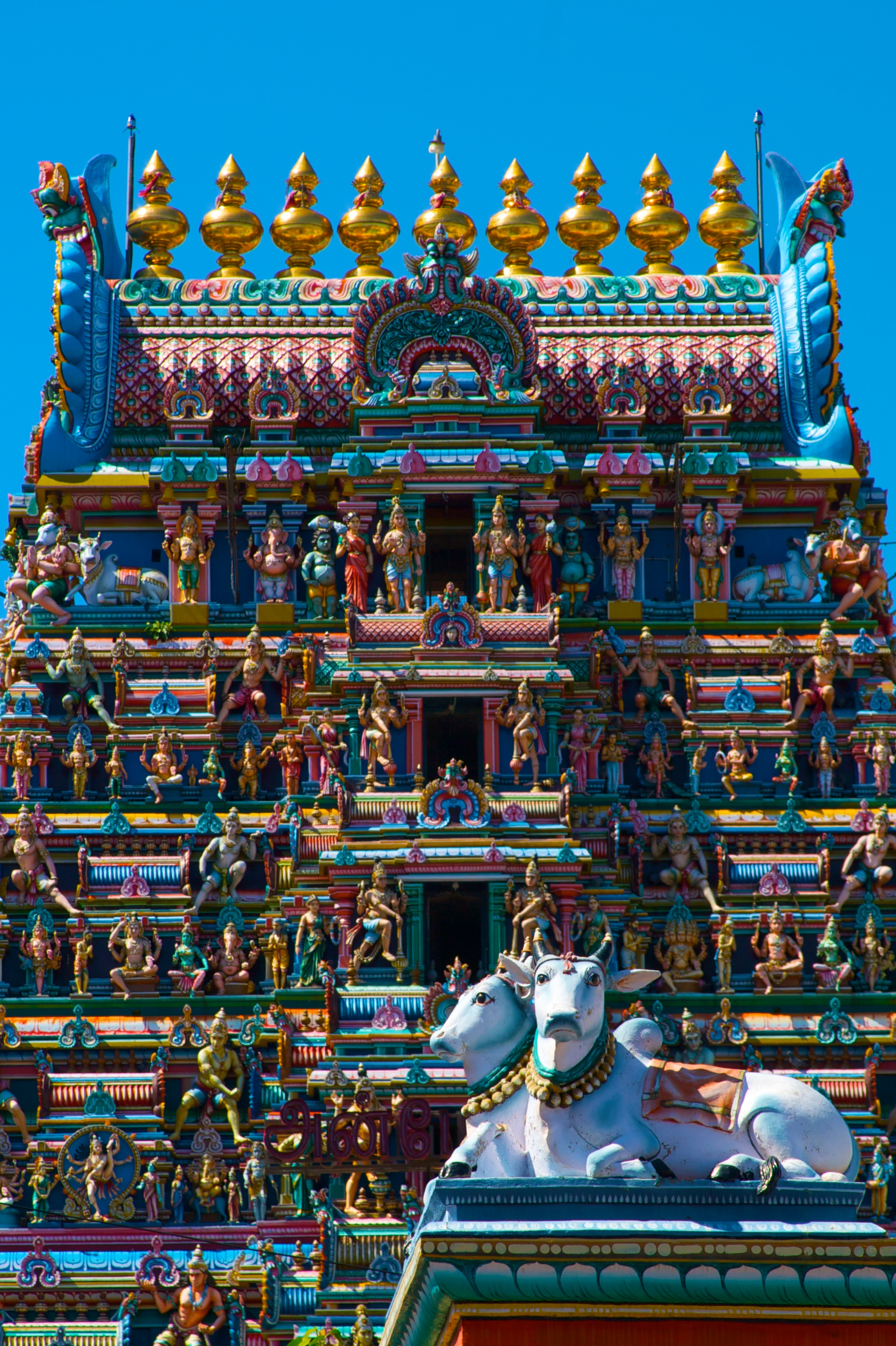 Cows depicted in the Meenakshi temple